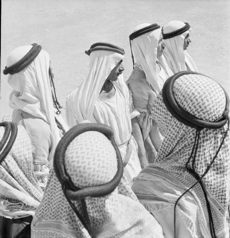 Cecil Beaton Photographs- General Travels in the Middle East 1942: A pattern made by keffiyebs, native head-dresses, worn by Iraqi Levies seen from above.